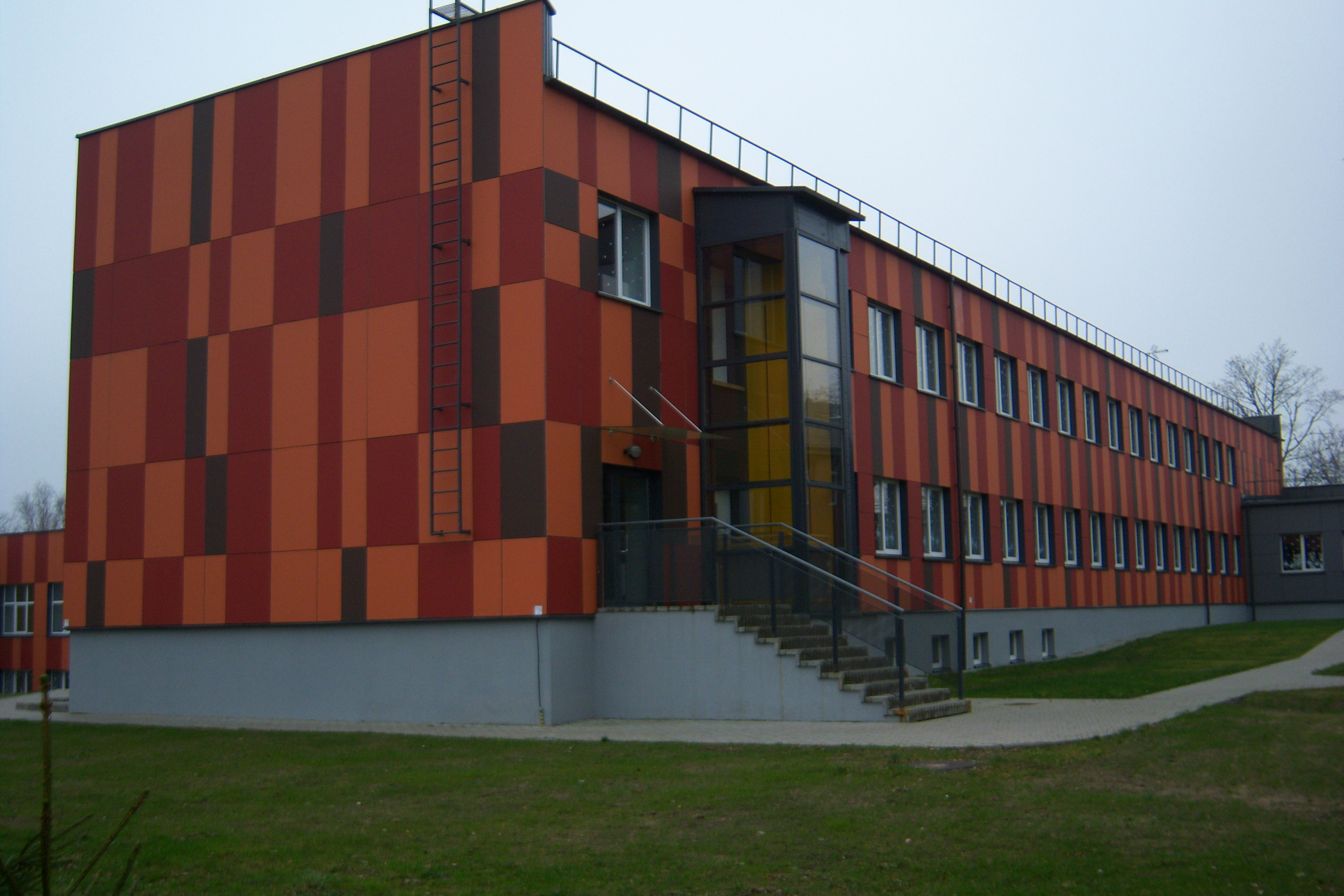 Basic school, Nevarėnai, Telšiai district, Lithuania